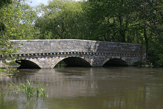 West Street Bridge, Ringwood. This old bridge carries West Street over the River Avon. Before Ringwood bypass was built in the 1930s, this was the only bridge across the river, and traffic that now flows on the A31 would have passed through the centre of Ringwood and departed southbound over this bridge.